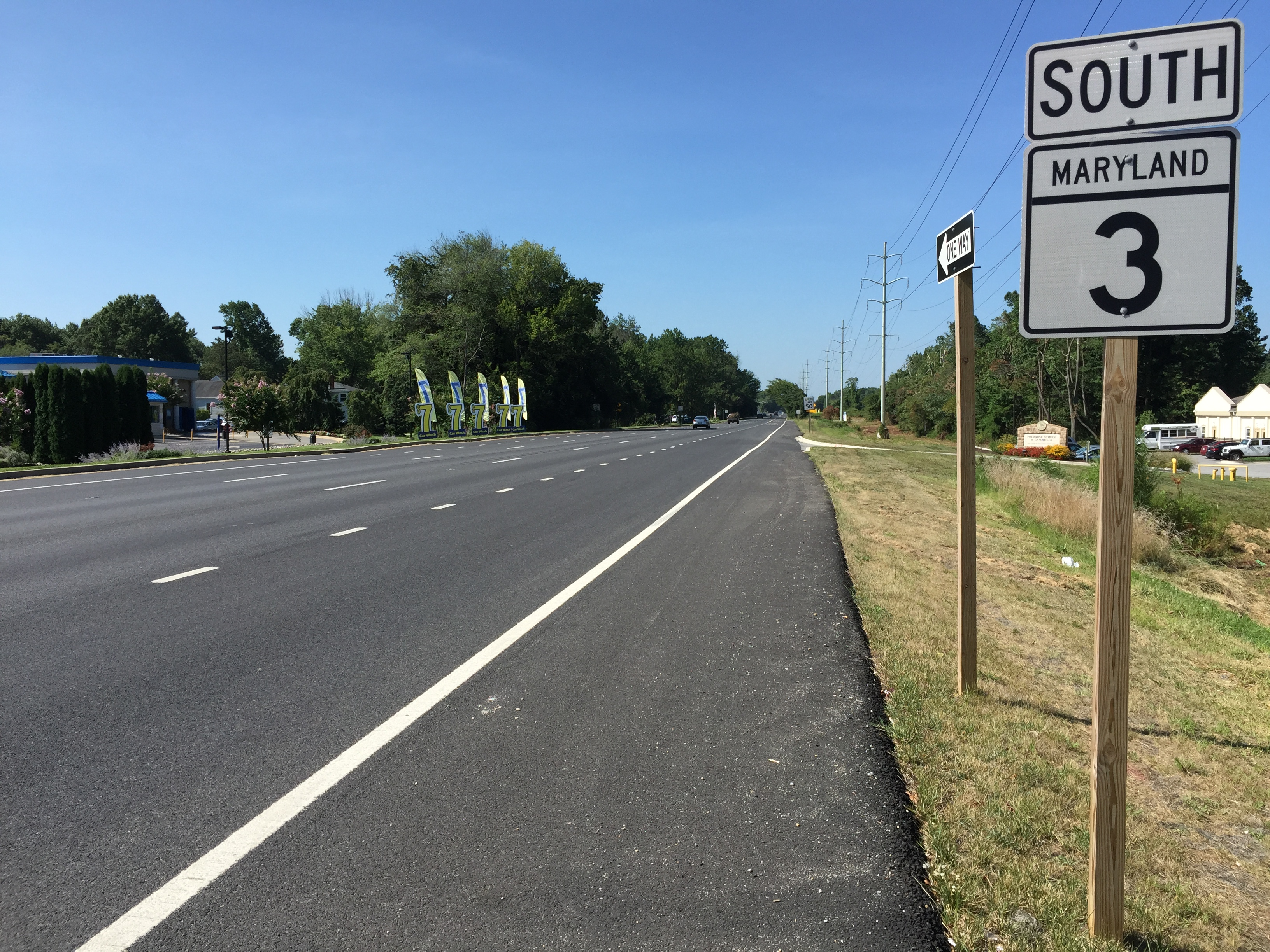 View south along Maryland State Route 3 (Crain Highway) at Maryland State Route 175 (Annapolis Road) in Odenton, Anne Arundel County, Maryland